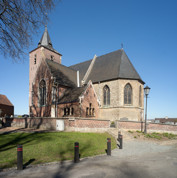 Hemelveerdegem, parochiekerk; Lierde, Oost-Vlaanderen, Belgium; ; ref: PM_083897_B_Hemelveerdegem; Sint-Jan-Baptistkerk; Photographer: Paul M.R. Maeyaert; © Paul M.R. Maeyaert; ; Cultural heritage; Europeana; Europe/Belgium/Hemelveerdegem; Europe/Belgium/Lierde; Wiki Commons